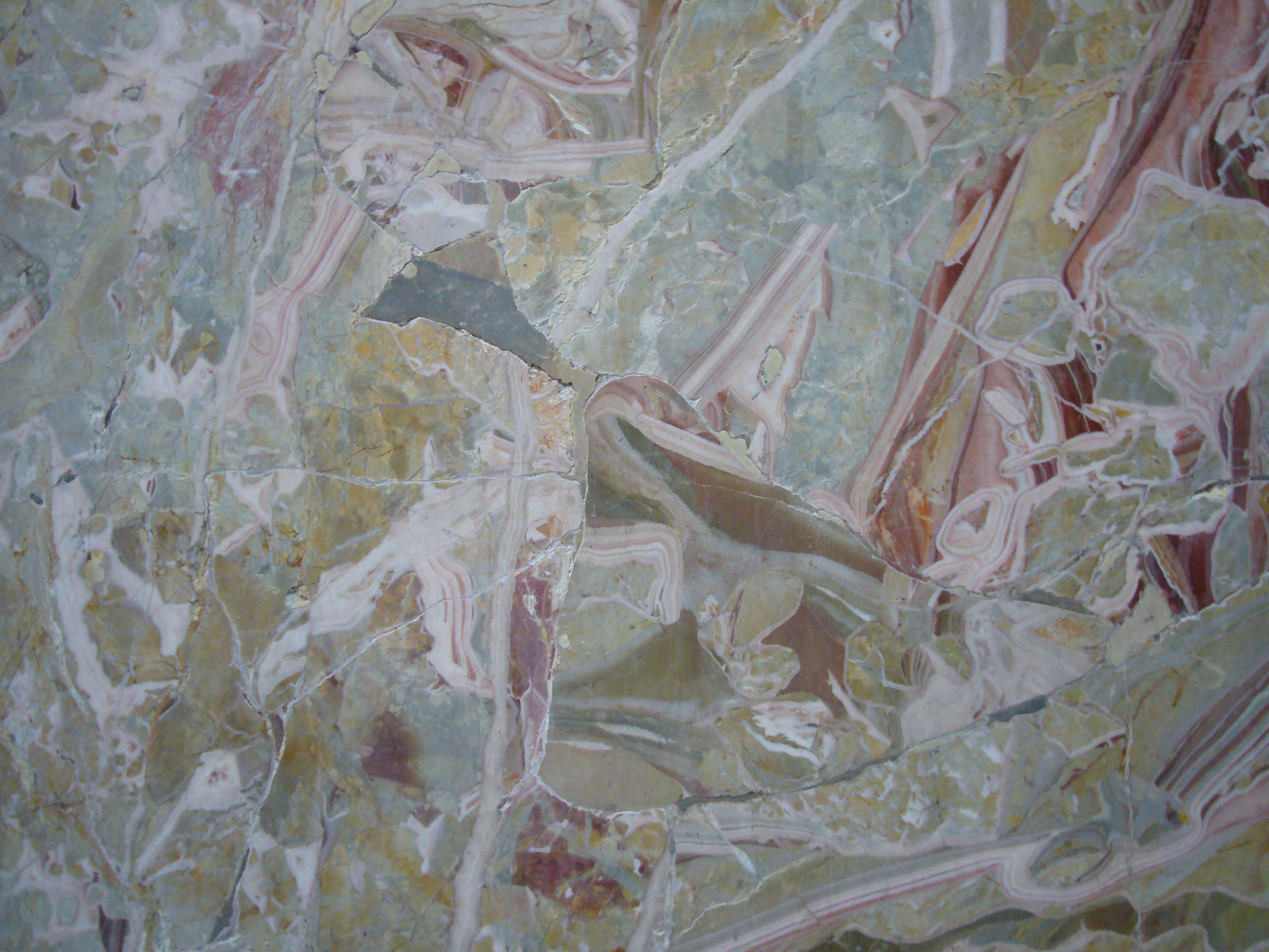 Naples, Palazzo Reale: entrence, a part from the marble panel (limestone, rubble breccia)